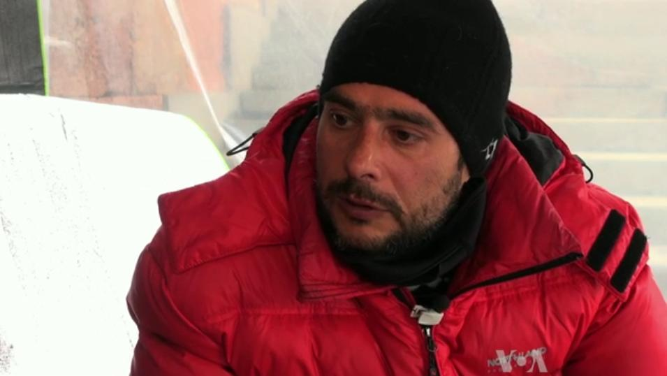 Andrias Ghukasyan